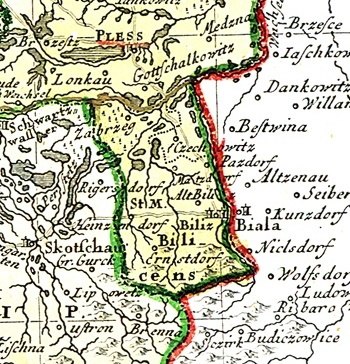 State country of Bielsko in Upper Silesia, map of 1746